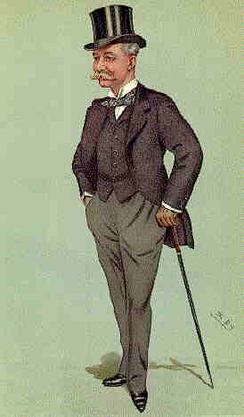 Caricature of General Sir Laurence James Oliphant KCB KCVO (1846-1914). Caption read "Bully".